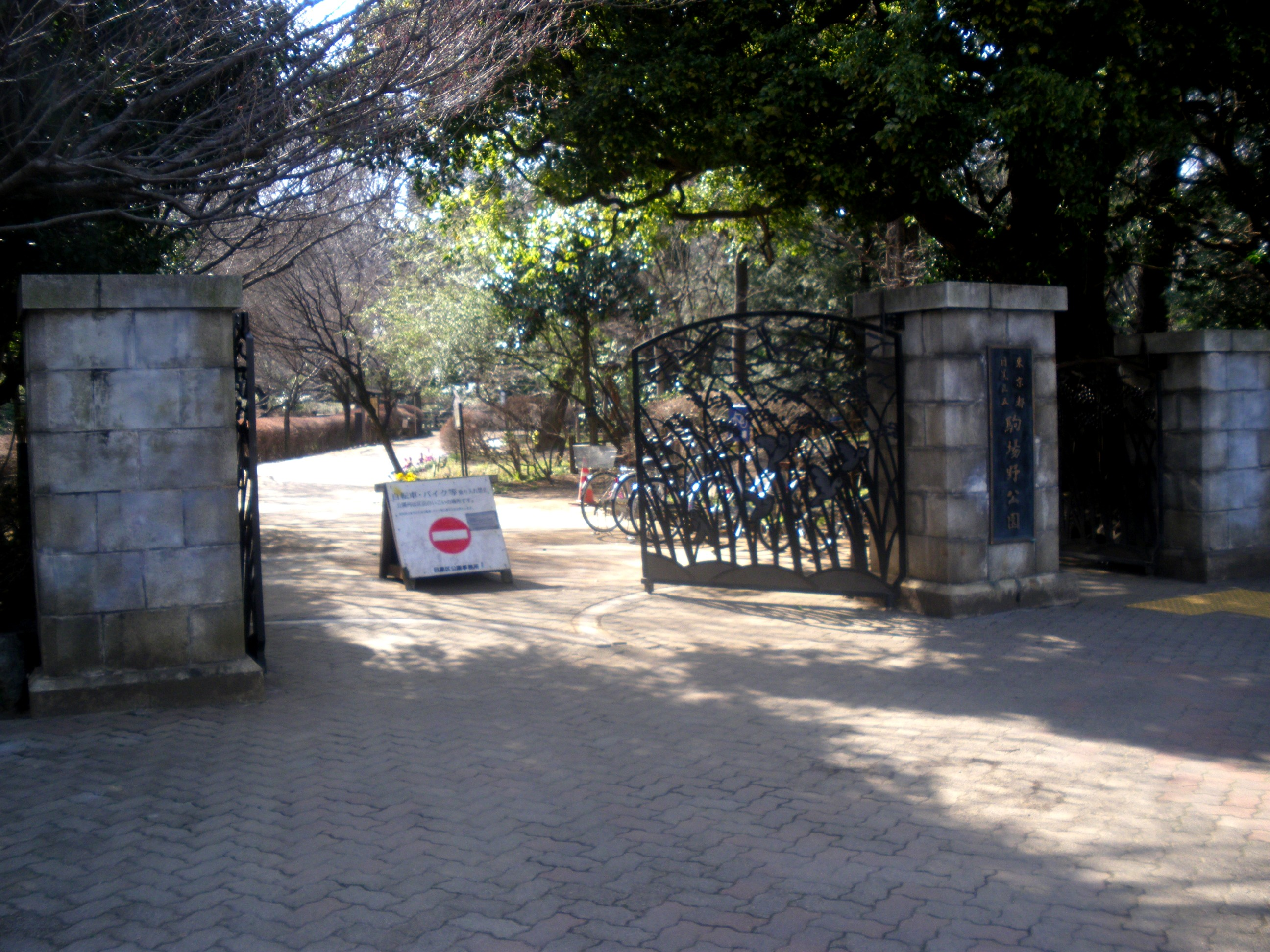 Komabano Park(Meguro,Tokyo)